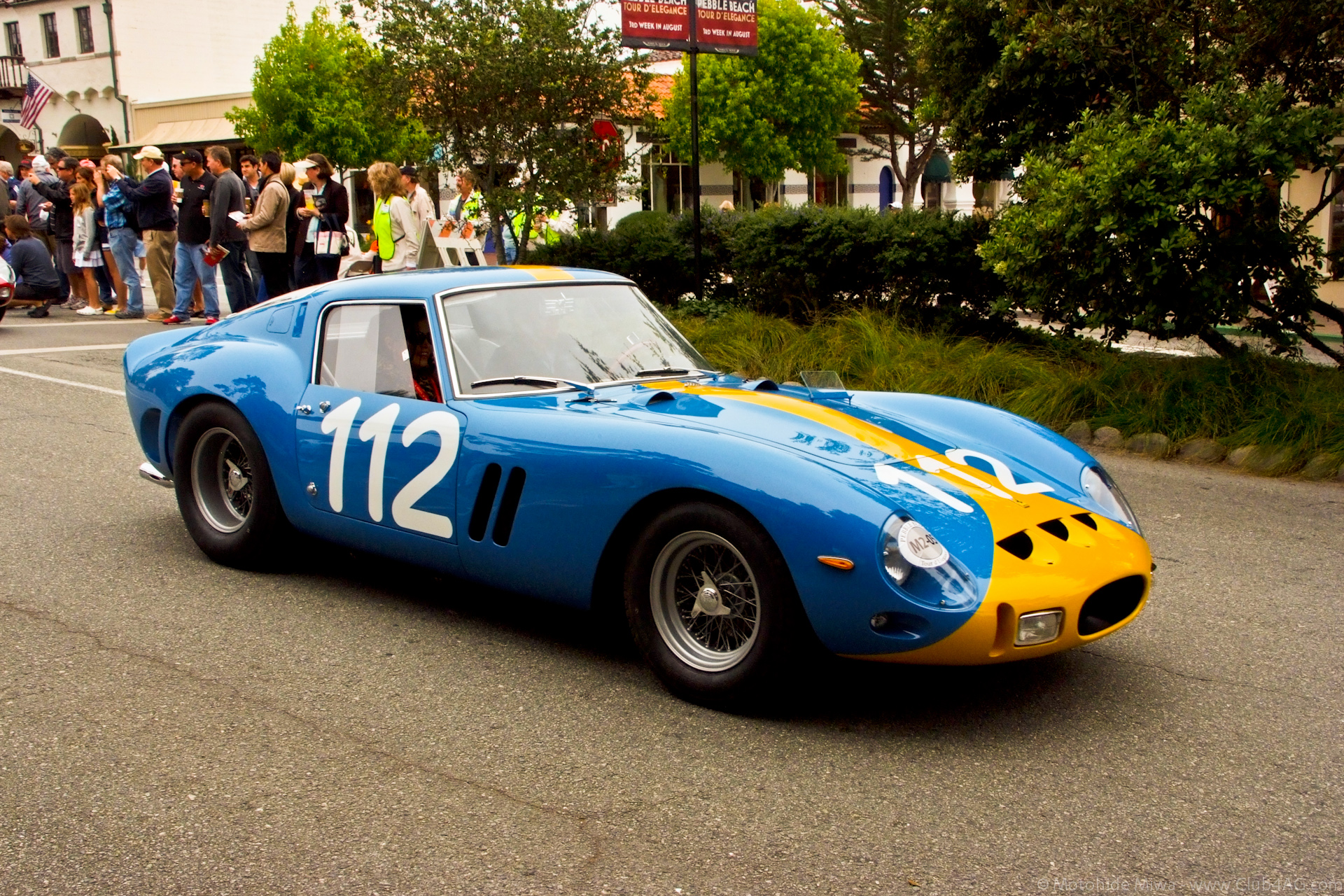 Monterey_Historics_2011-10-29. This is 1962 Ferrari GTO serial no. 3445GT, painted in swedish flag colors blue/yellow in 1963 when it was purchased by swedish race driver Ulf Norinder (1934–77).[1]